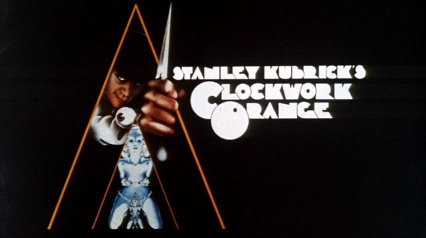 Poster of A Clockwork Orange taken from the original trailer.